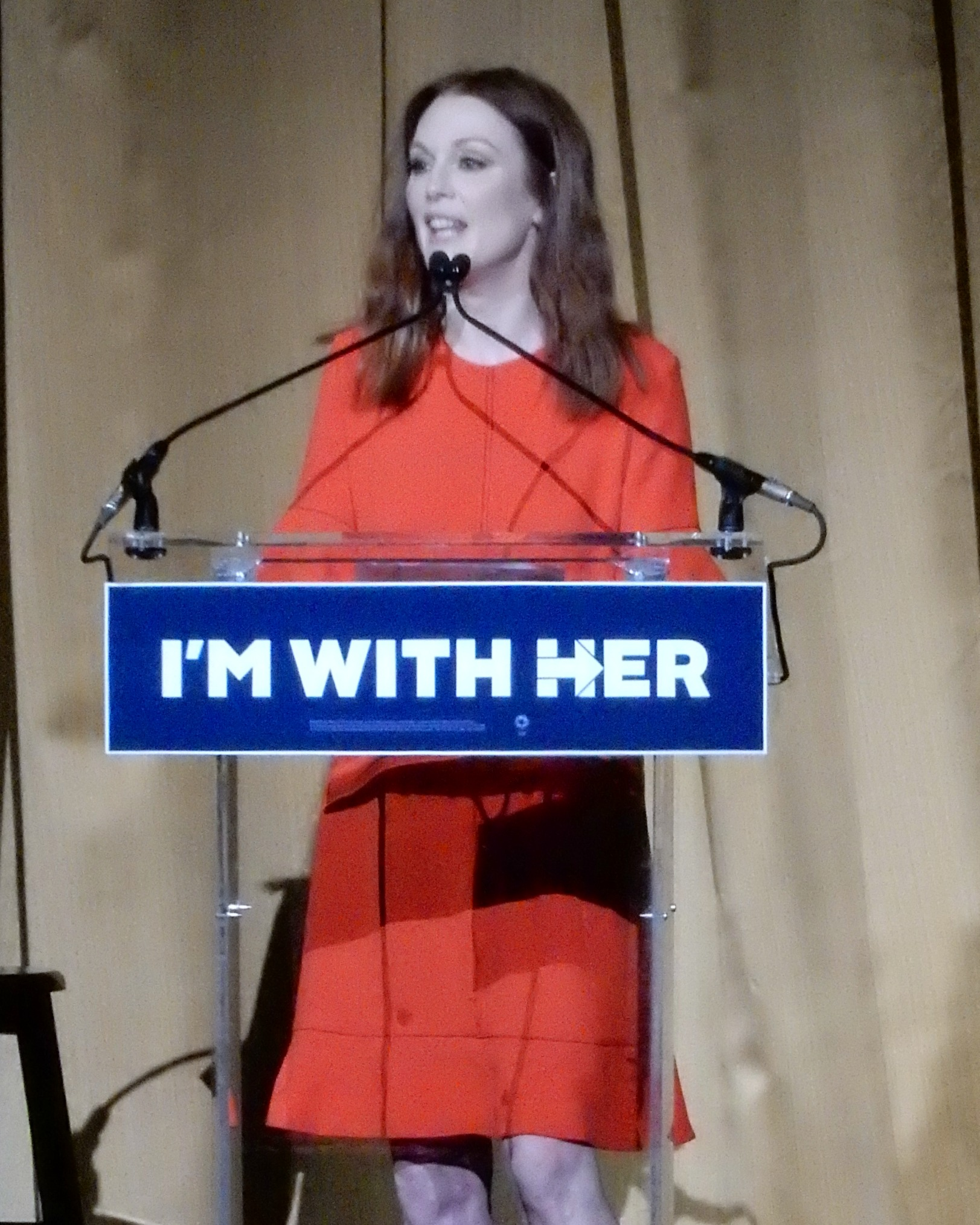 Julianne Moore Speaking At The I'm With Her Concert for Hillary Clinton at Radio City Music Hall